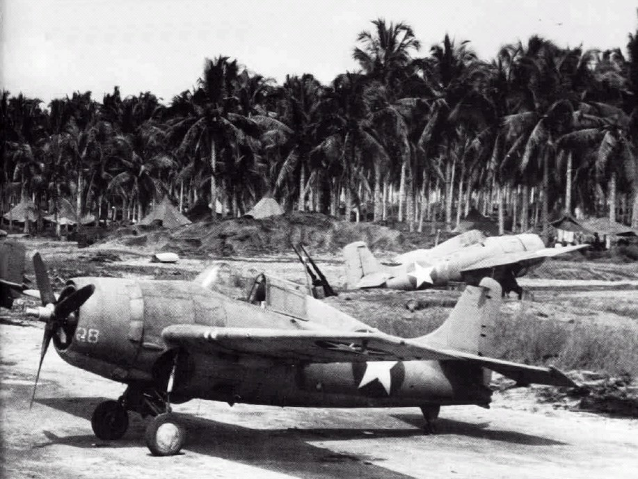 Two U.S. Marine Corps Grumman F4F-4 Wildcat fighters at Henderson Field, Guadalcanal, Solomon Islands in 1942.